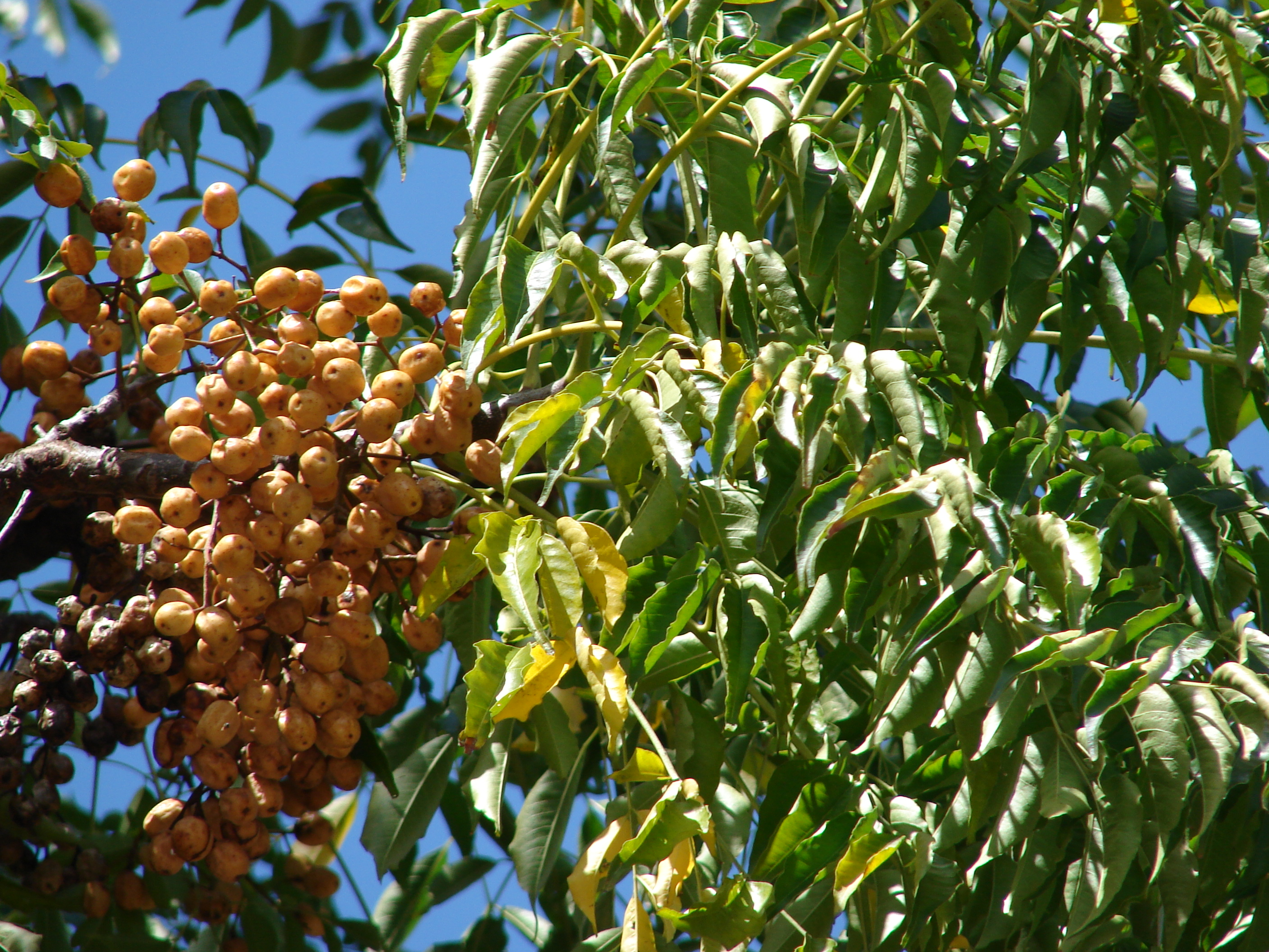 Melia azedarach (leaves and fruit). Location: Maui, Pukalani